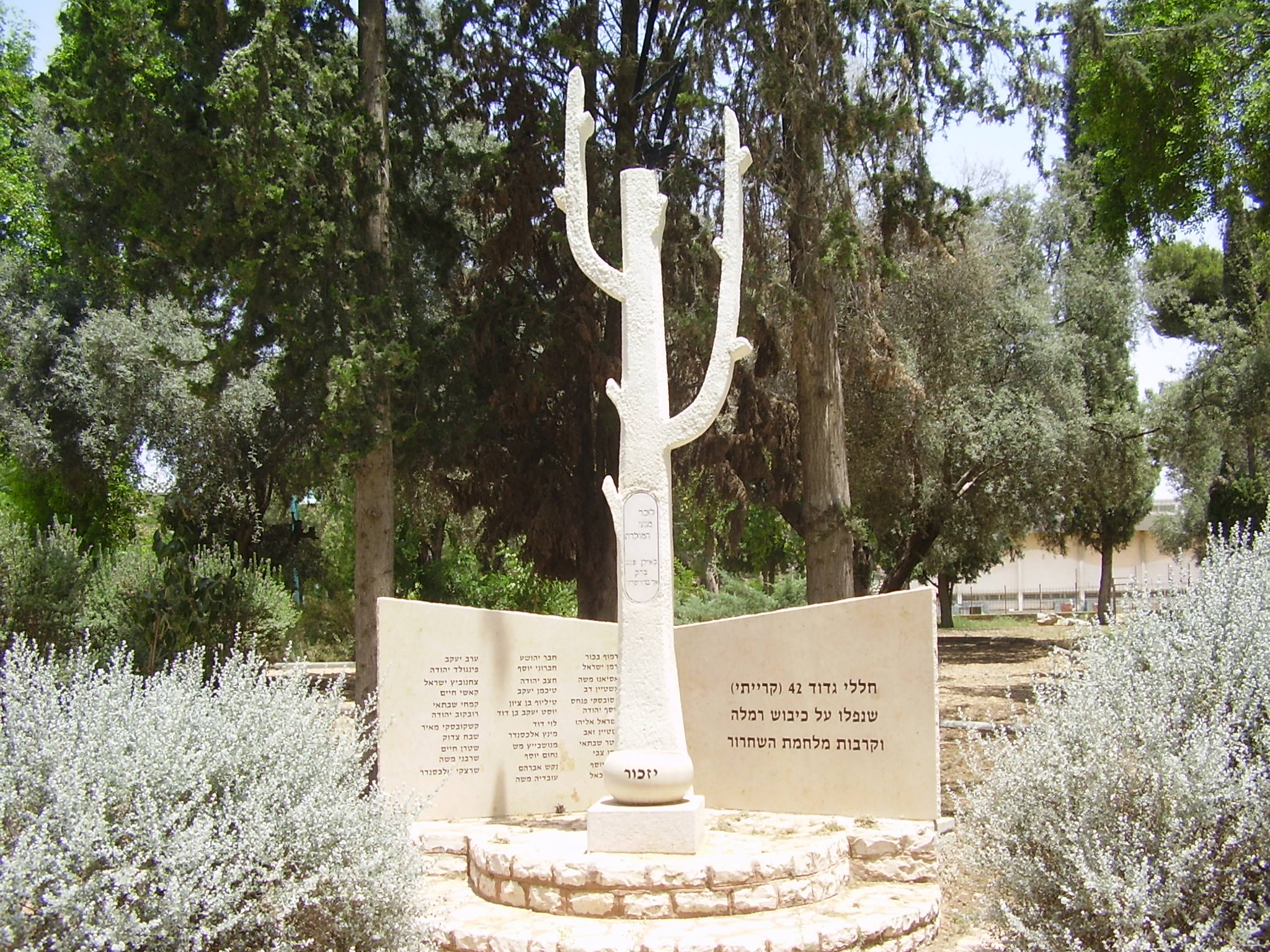 reg. 42 memorial in ramla